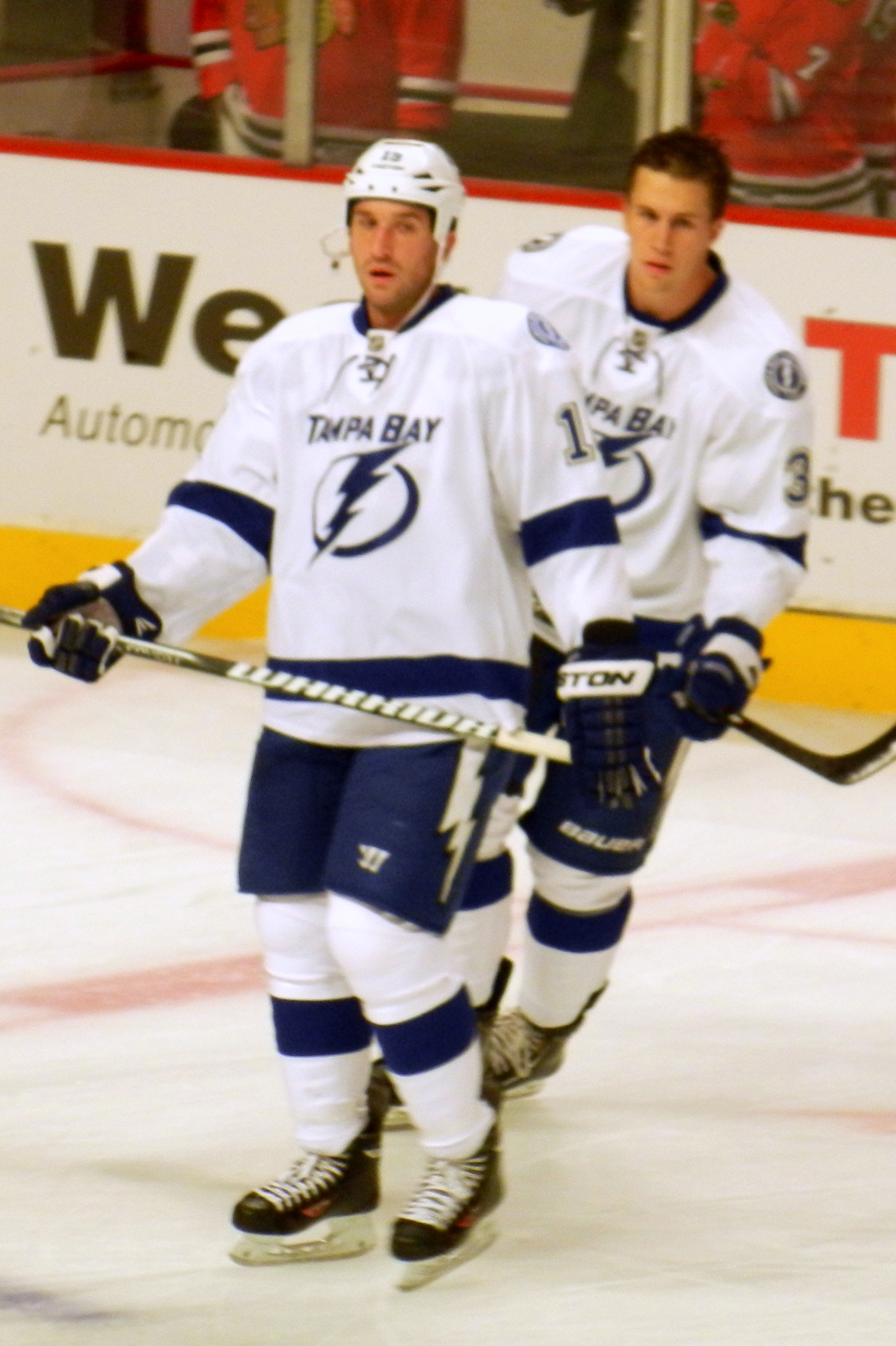 B. J. Crombeen (front) and Keith Aulie (back) with the Tampa Bay Lightning during warm-up before a gamve vs. the Blackhawks at the United Center in Chicago